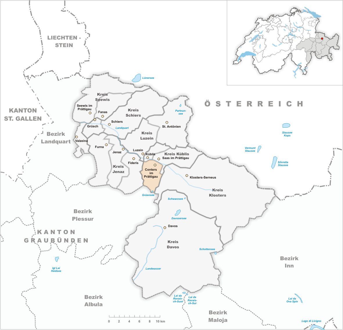 Municipality Conters im Prättigau